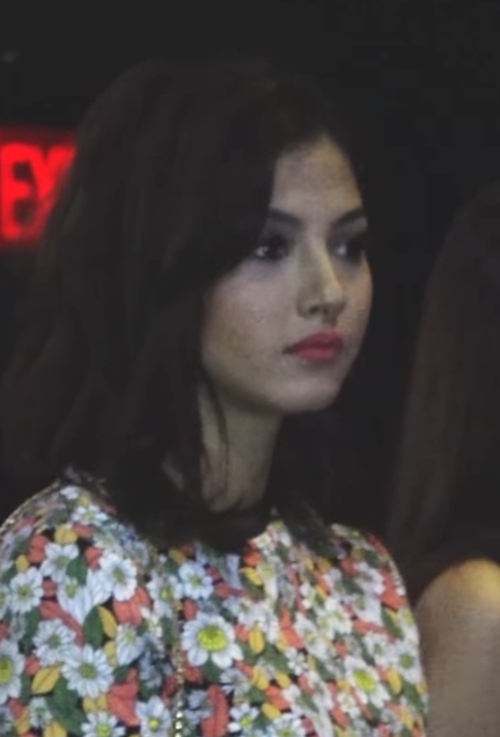 A Mero Hajur 2 premiere with Samragyee RL Shah, and Jharana Thapa